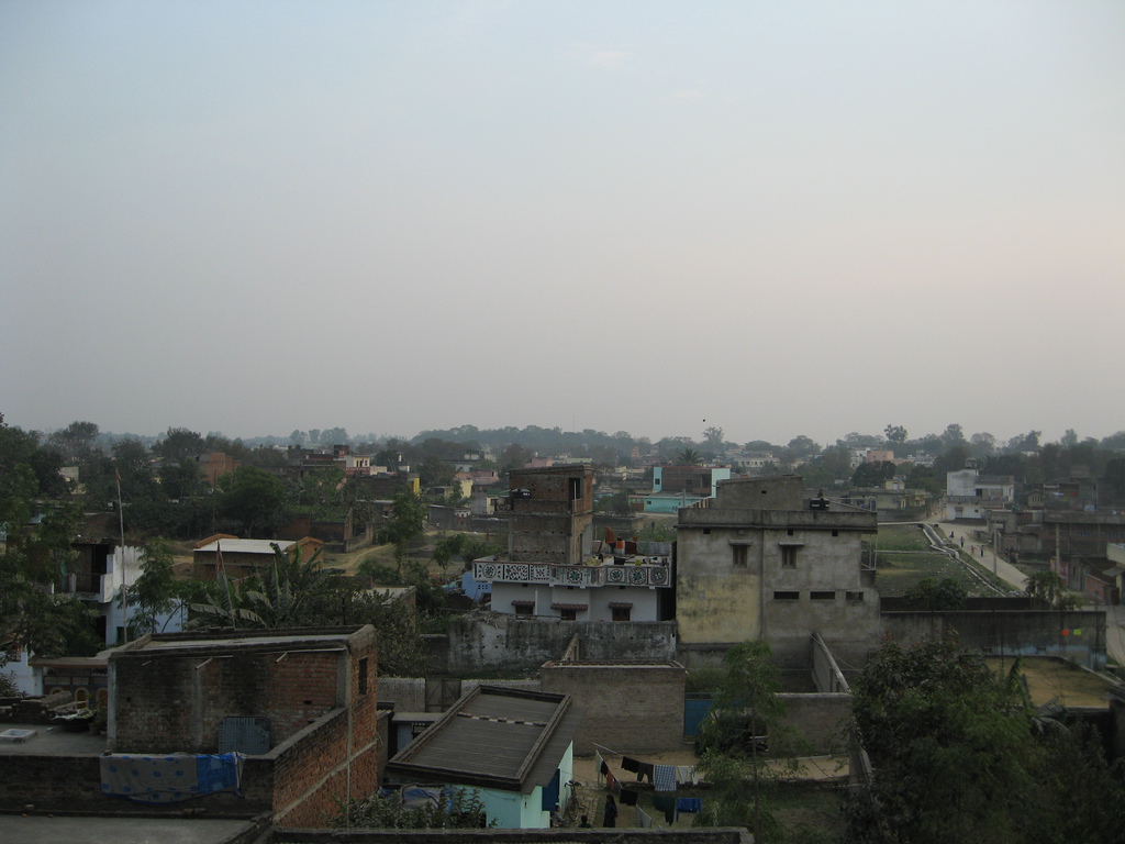 Chas